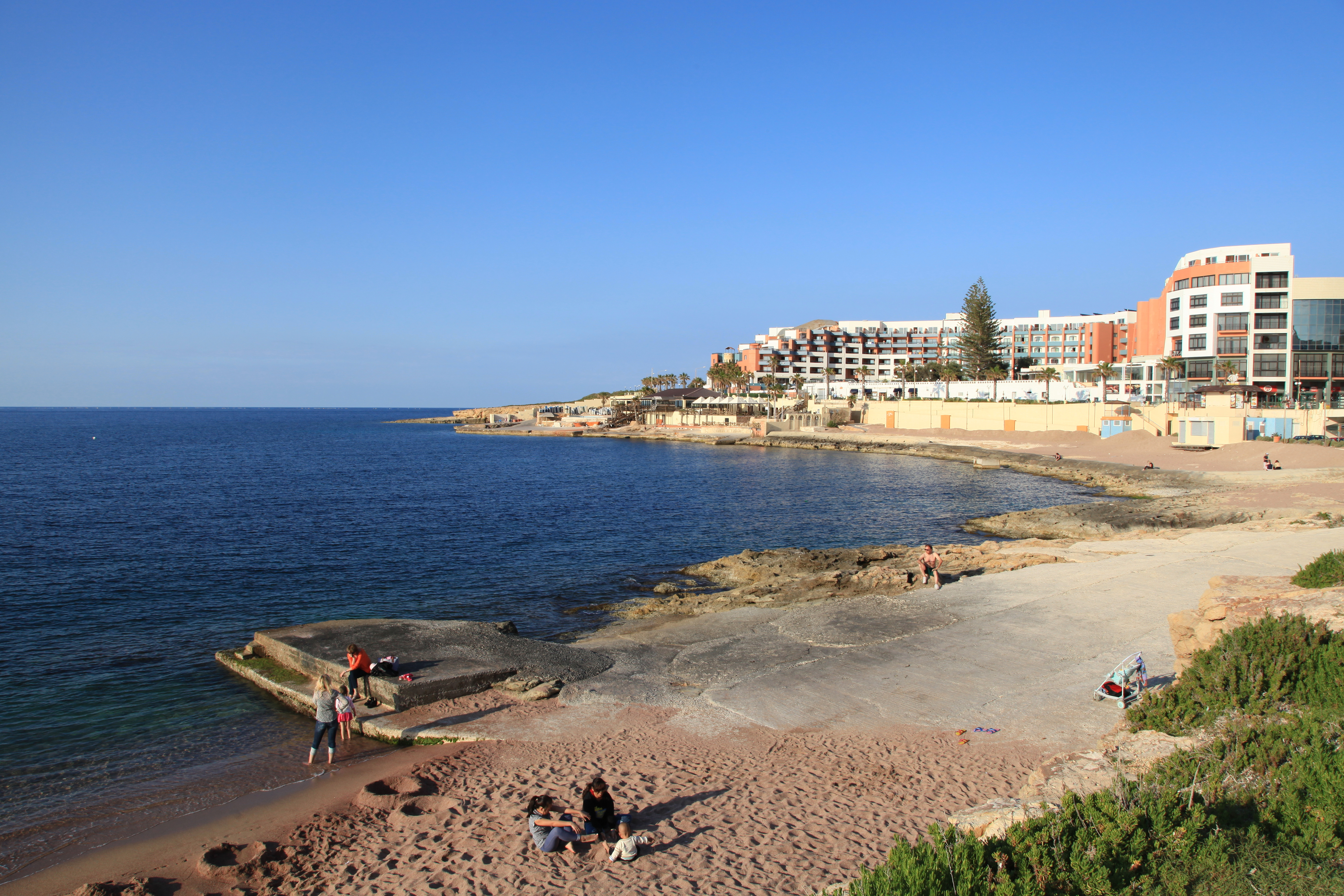 Ix-Xtajta ta' Bugibba, Dawret il-Gżejjer in St. Paul's Bay, Malta